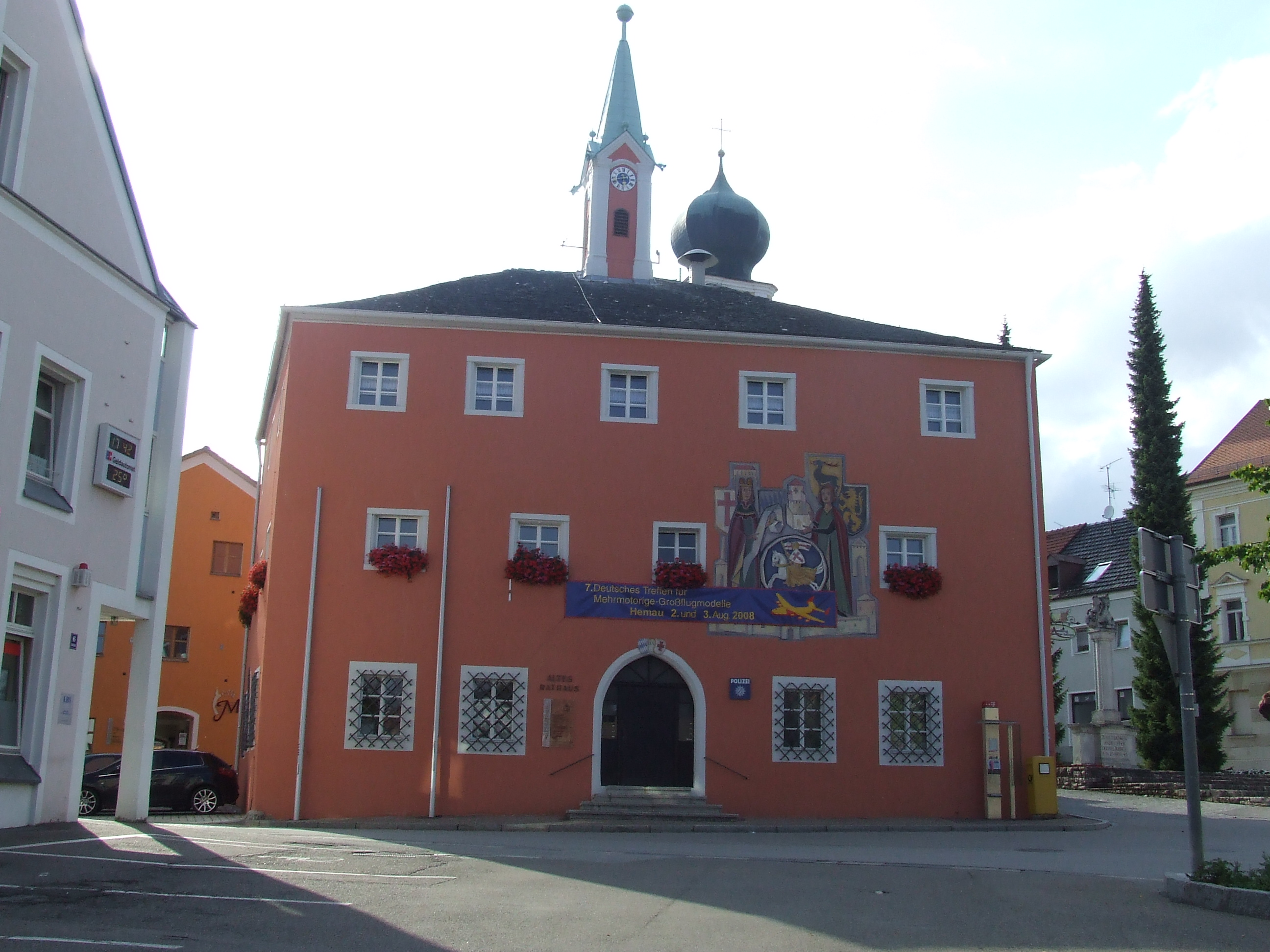 The townhall of the bavarian town Hemau.